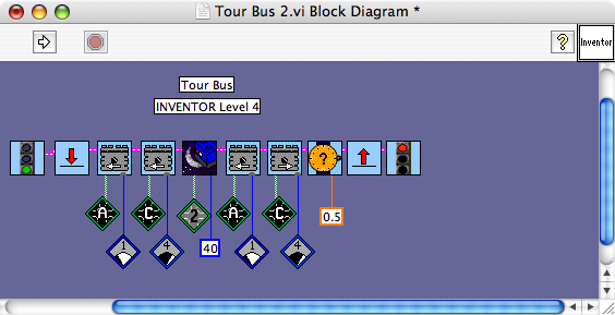 a screenshot of robolab 2.5.4